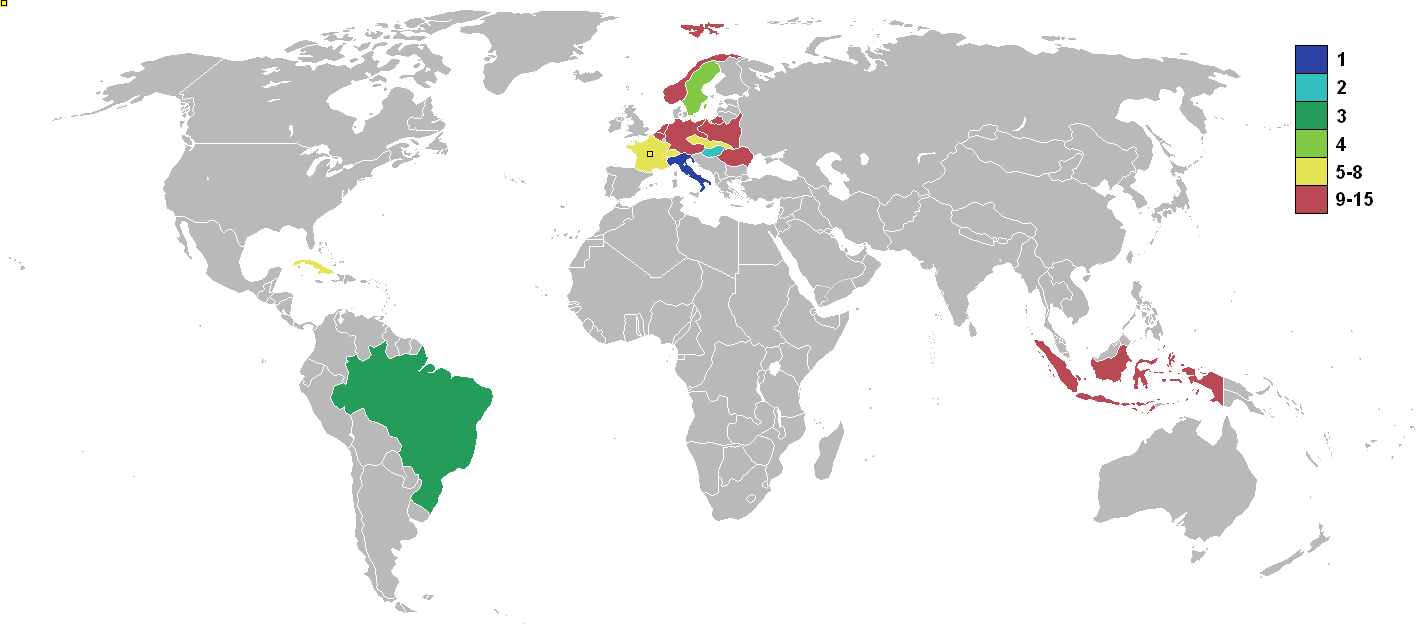 1938 FIFA World Cup, derived from Image:BlankMap-World_1937.png and Image:1938 world cup.png, showing: 1st (dark blue) 2nd (light blue) 3rd (dark green) 4th (light green) Quarterfinals (yellow) Round 1 (red) Yellow square is host nation.